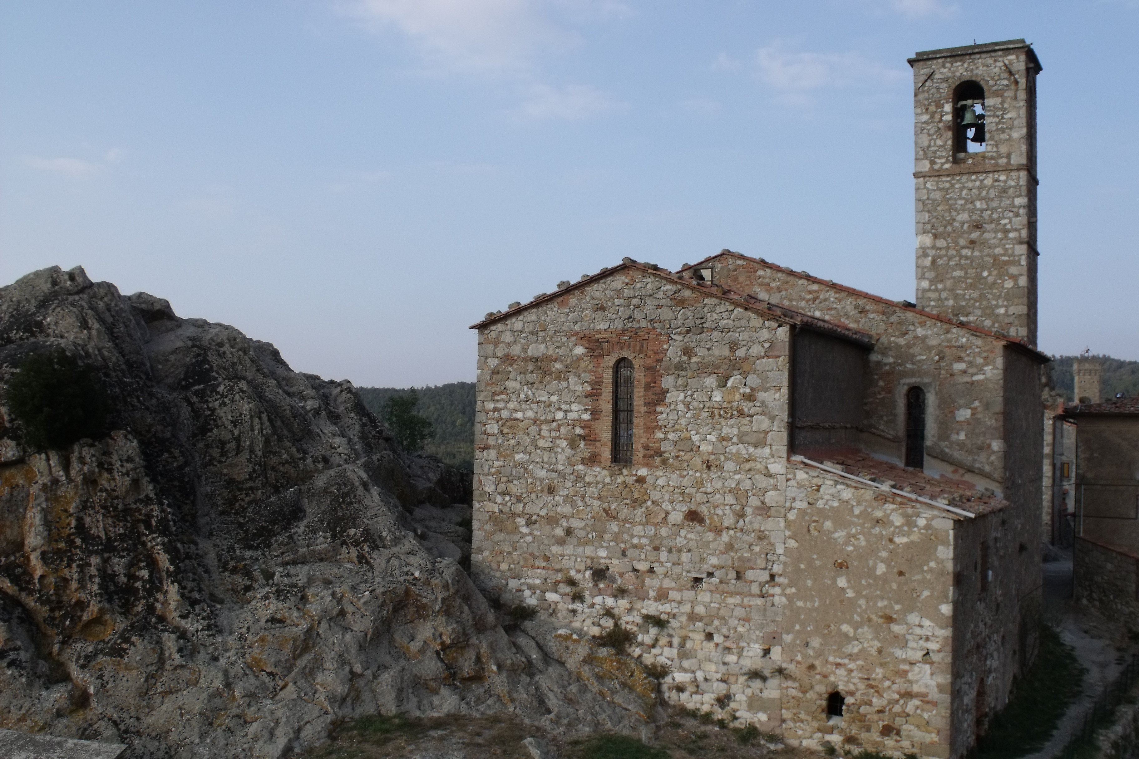 Church Chiesa di San Martino Vescovo in Roccatederighi (Roccastrada), Province of Grosseto, Tuscany, Italy